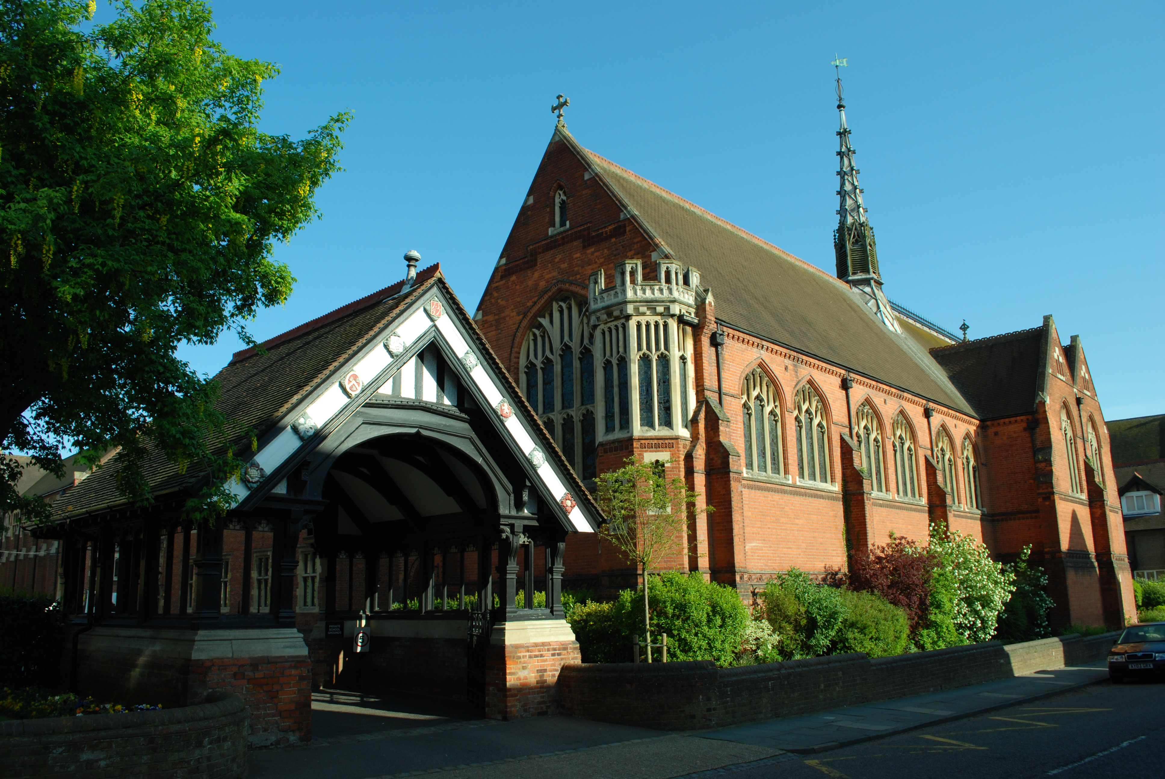 Lychgate and chapel of Berkhamsted Collegiate School, Castle Street, Hertfordshire, seen from the southwest